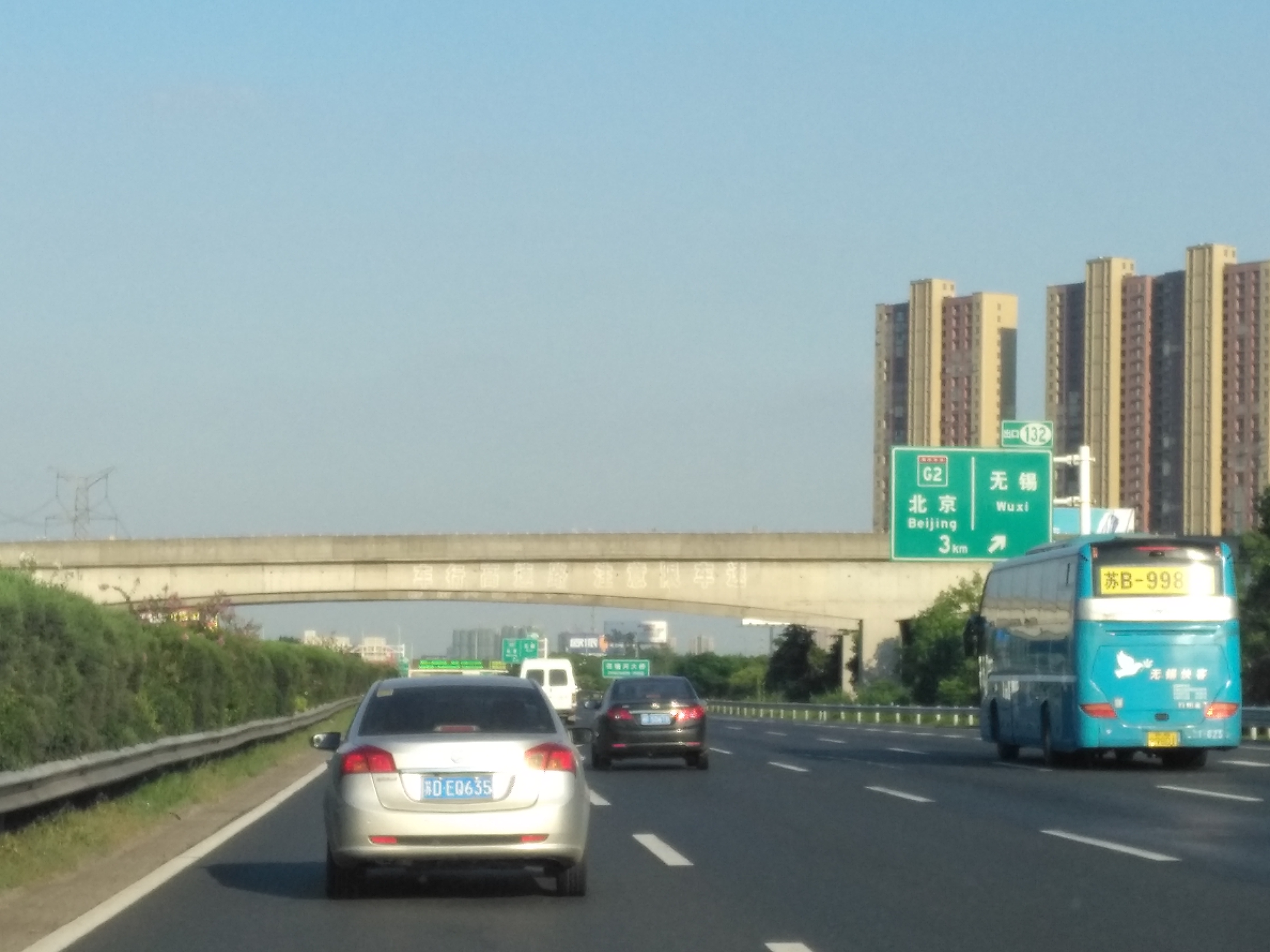 Wuxi Metro Line 1, spanning G2 Beijing-Shanghai Expressway